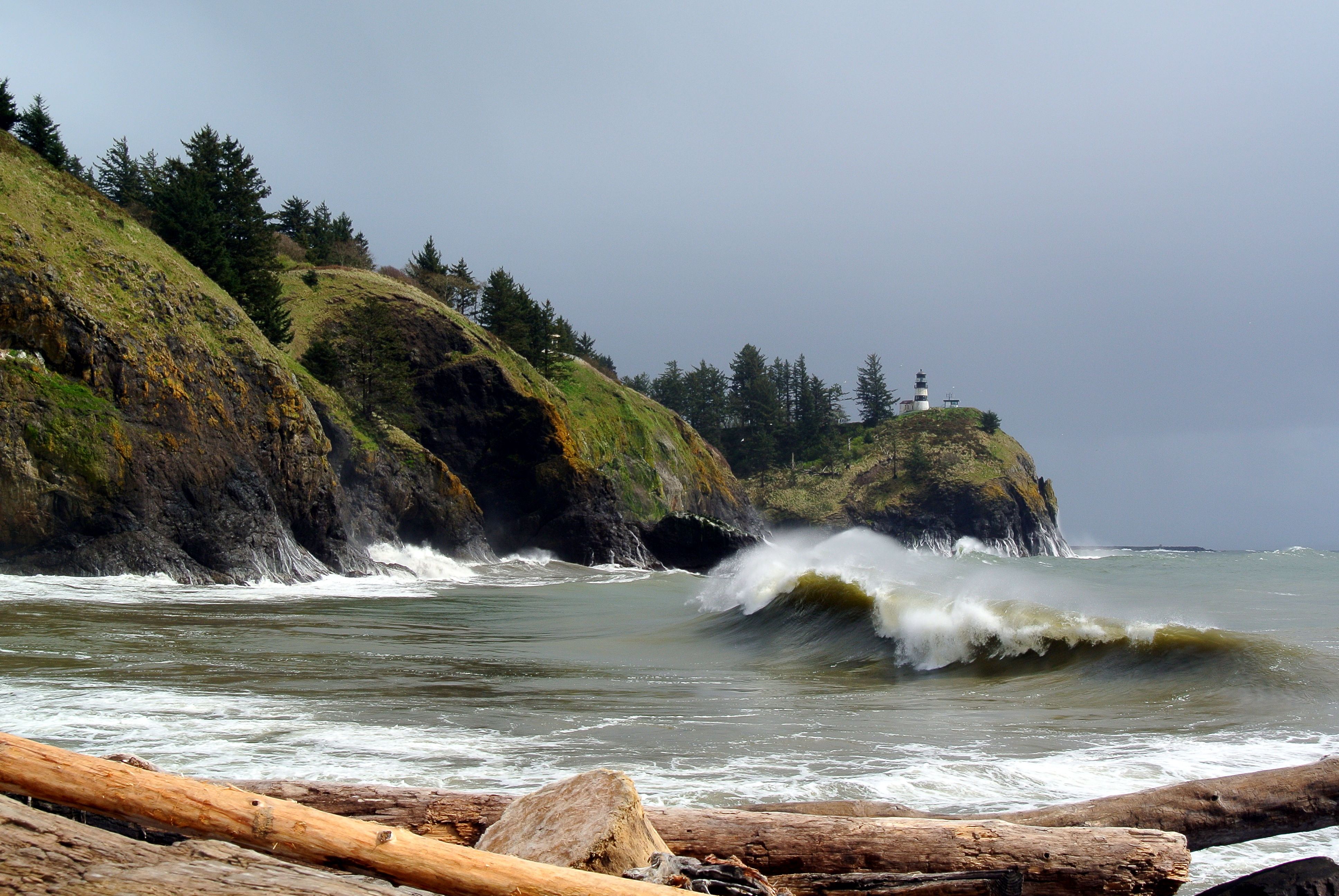 Cape Disappointment and Cape Disappointment Light and mouth of the Columbia river in the Cape Disappointment State Park, Washington. Nikon 1 V1 + 1 Nikkor VR 10-30mm f/3.5-5.6